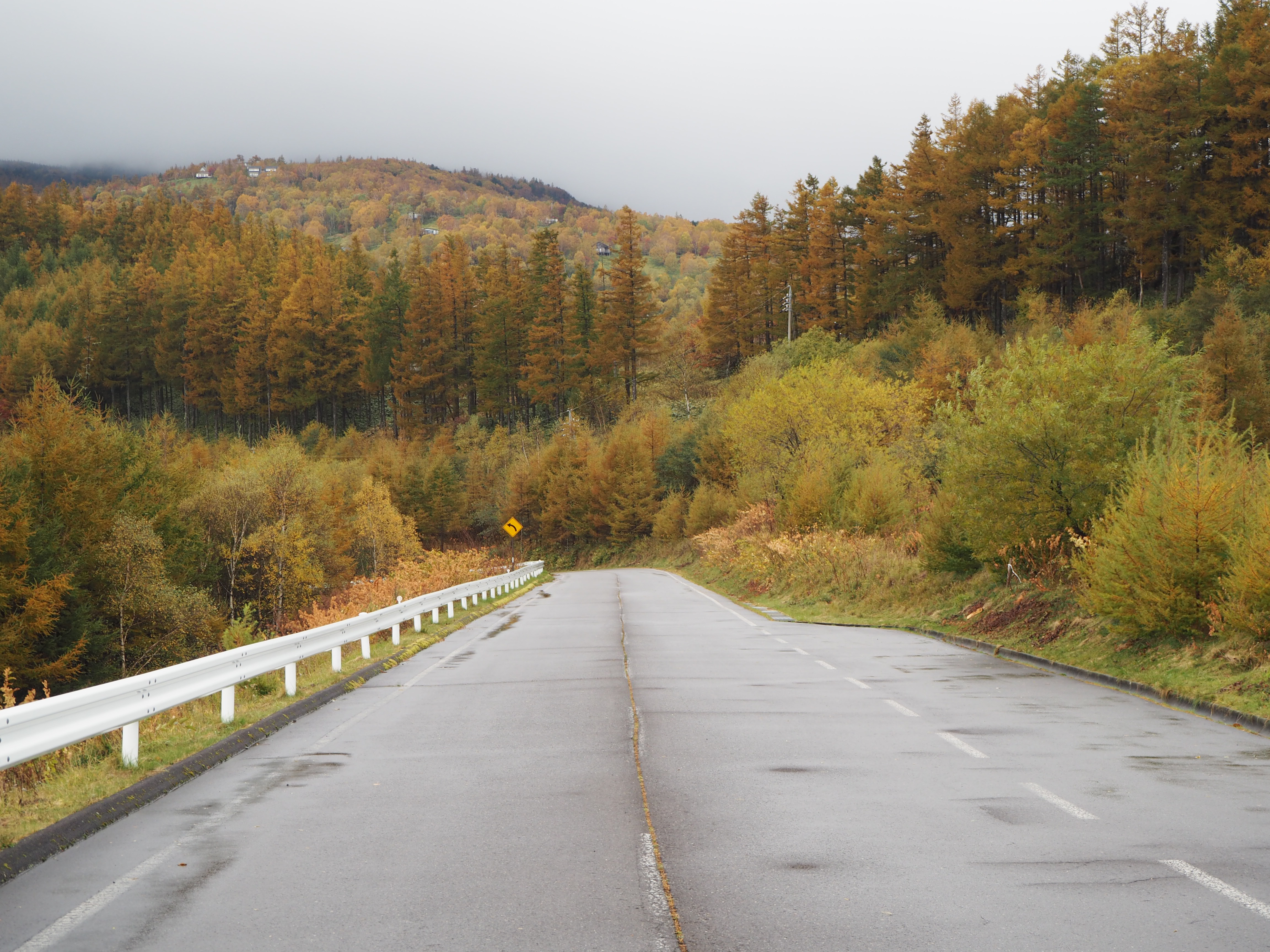 Tateshima Skyline, Saku, Nagano Pref.